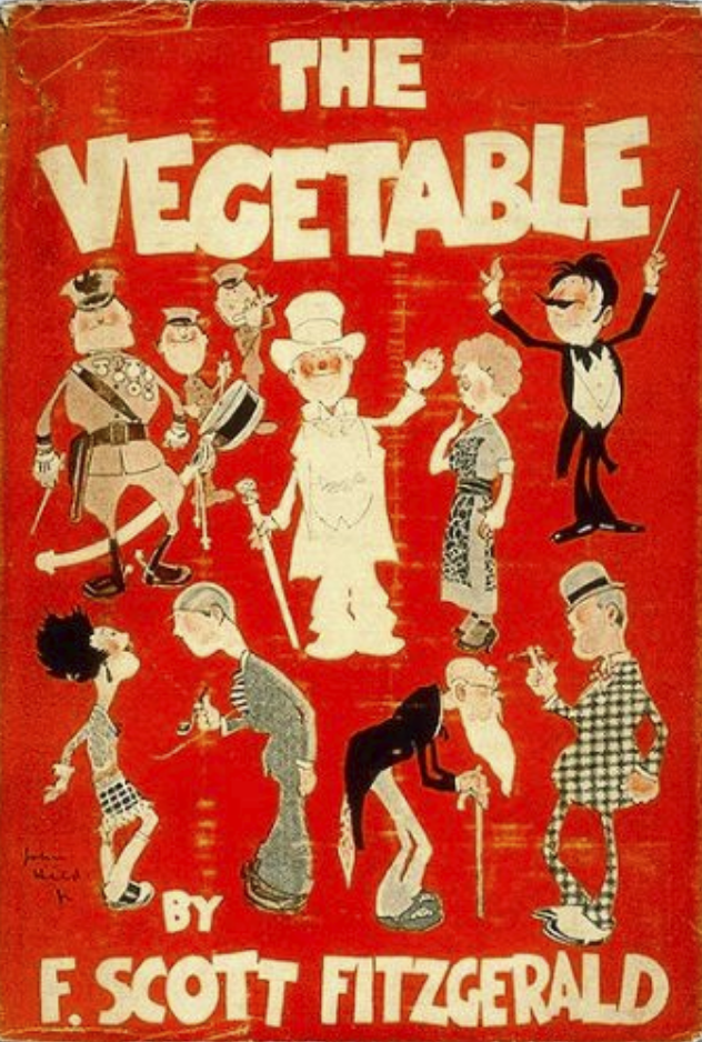 First edition of F. Scott Fitzgerald's The Vegetable, 1923.